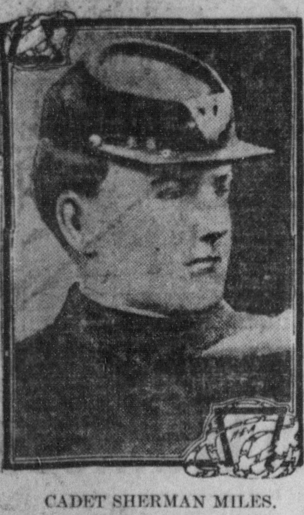 in 1904, Sherman Miles was a cadet at West Point Military Academy.